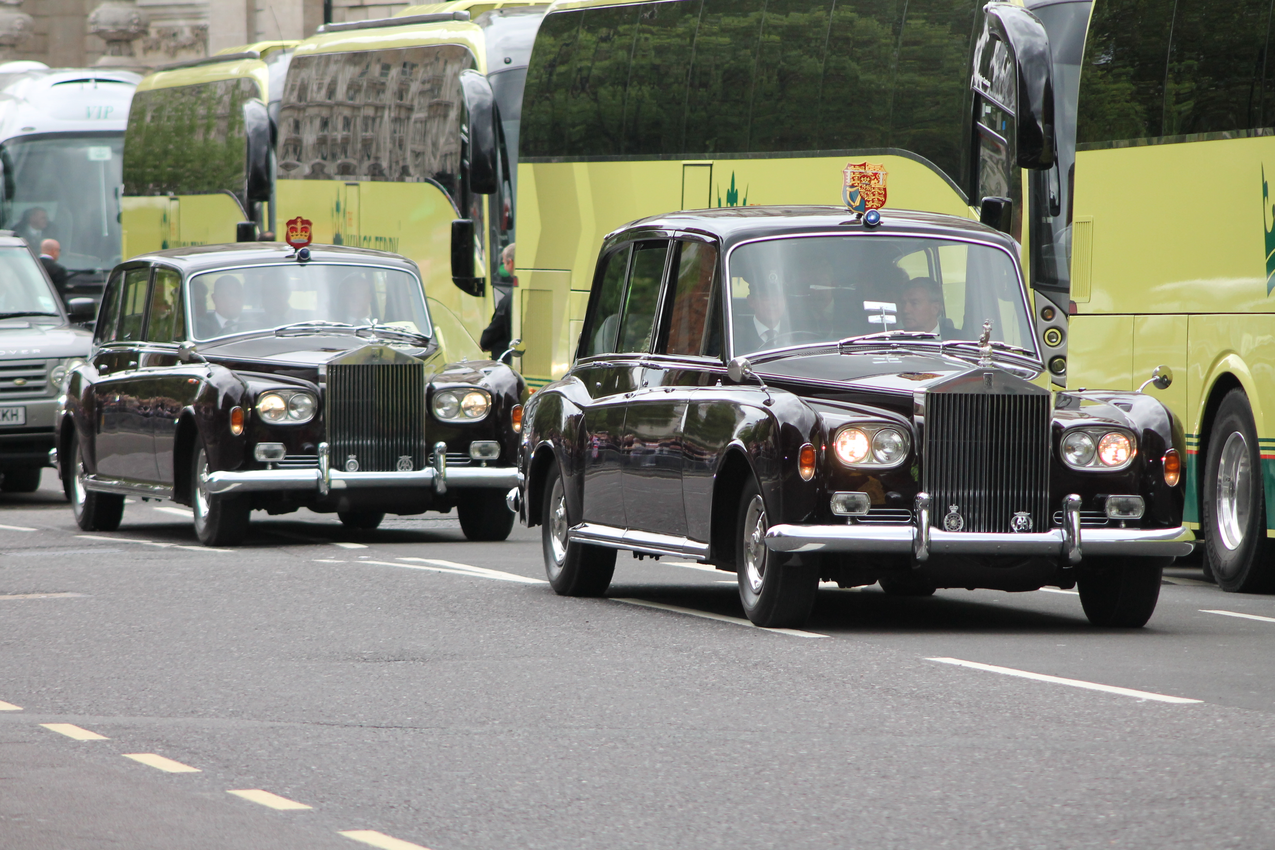 Rolls-Royce Phantom VI cars of Queen Elizabeth II from 1986 (left) and 1977 (right). Front car displays arms of Charles, Prince of Wales: Royal arms of Queen Eizabeth II differenced by a label of three points argent overall an inescutcheon of the arms of Llywelyn the Great, Prince of Wales. Second car no coat of arms displayed, just a royal crown, thus probably transporting minor members of the royal family.